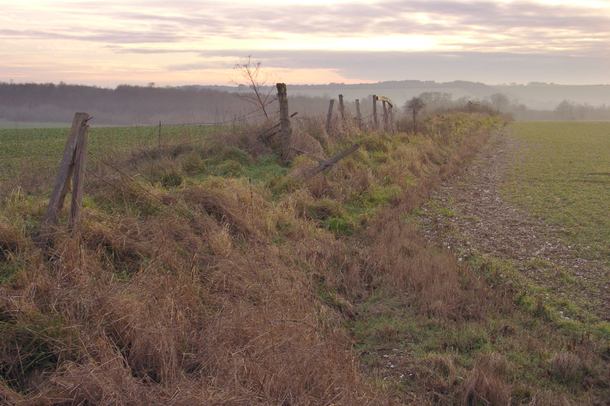 Looking south-west along the southern bank of the Dorset Cursus where it crosses the ridge of Bottlebush Down (at grid ref SU016163 alongside the B3081 road) on Cranborne Chase, Dorset U.K. This is one of the few easily-accessible places where any trace of the cursus banks remain.